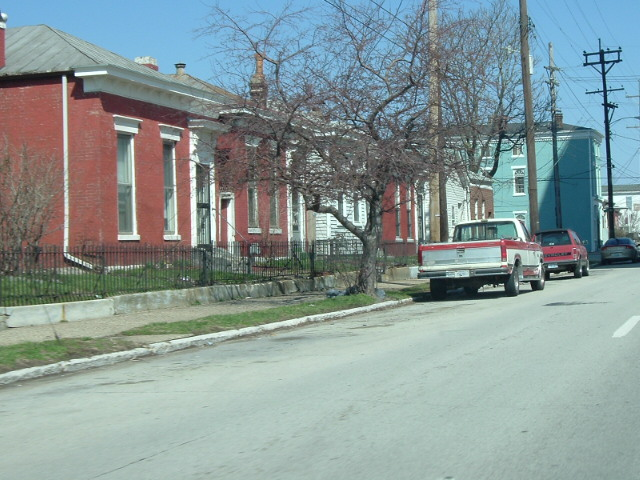 Smoketown LOUKY